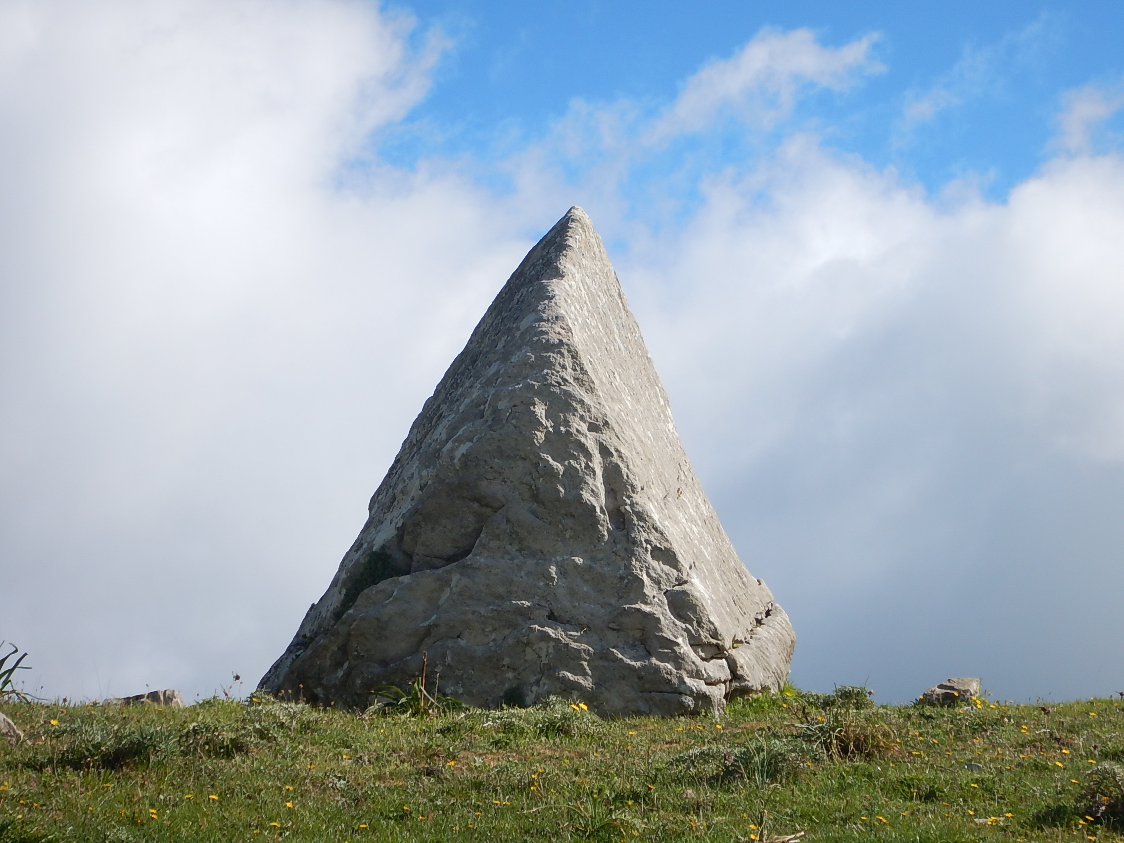 This triangle megalithis situated in the Valle di Levante over the town of Fondachelli Fantina, Sicily